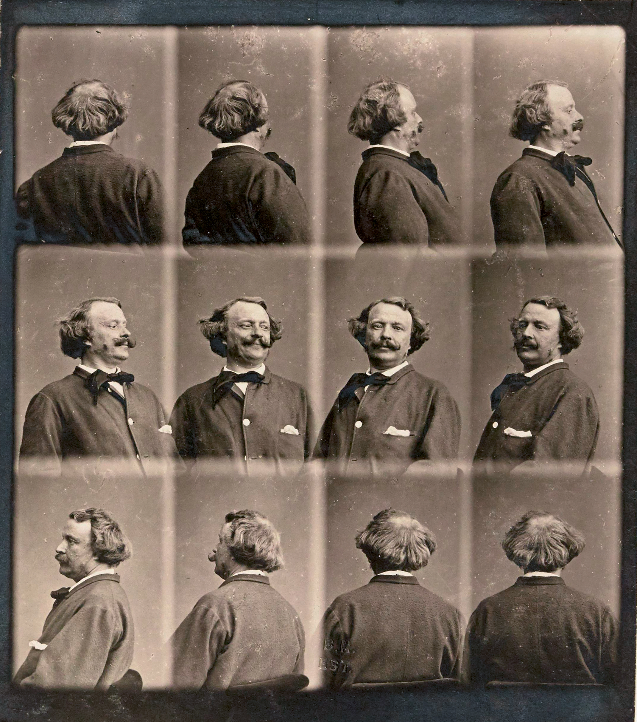 "Revolving" selfportrait by Nadar.